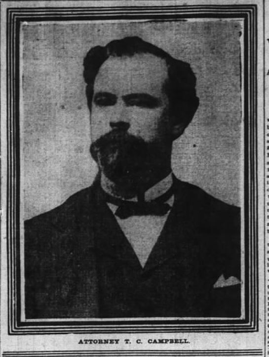 Photograph of Thomas C. Campbell from Cincinnati Enquirer January 5, 1904, page 12